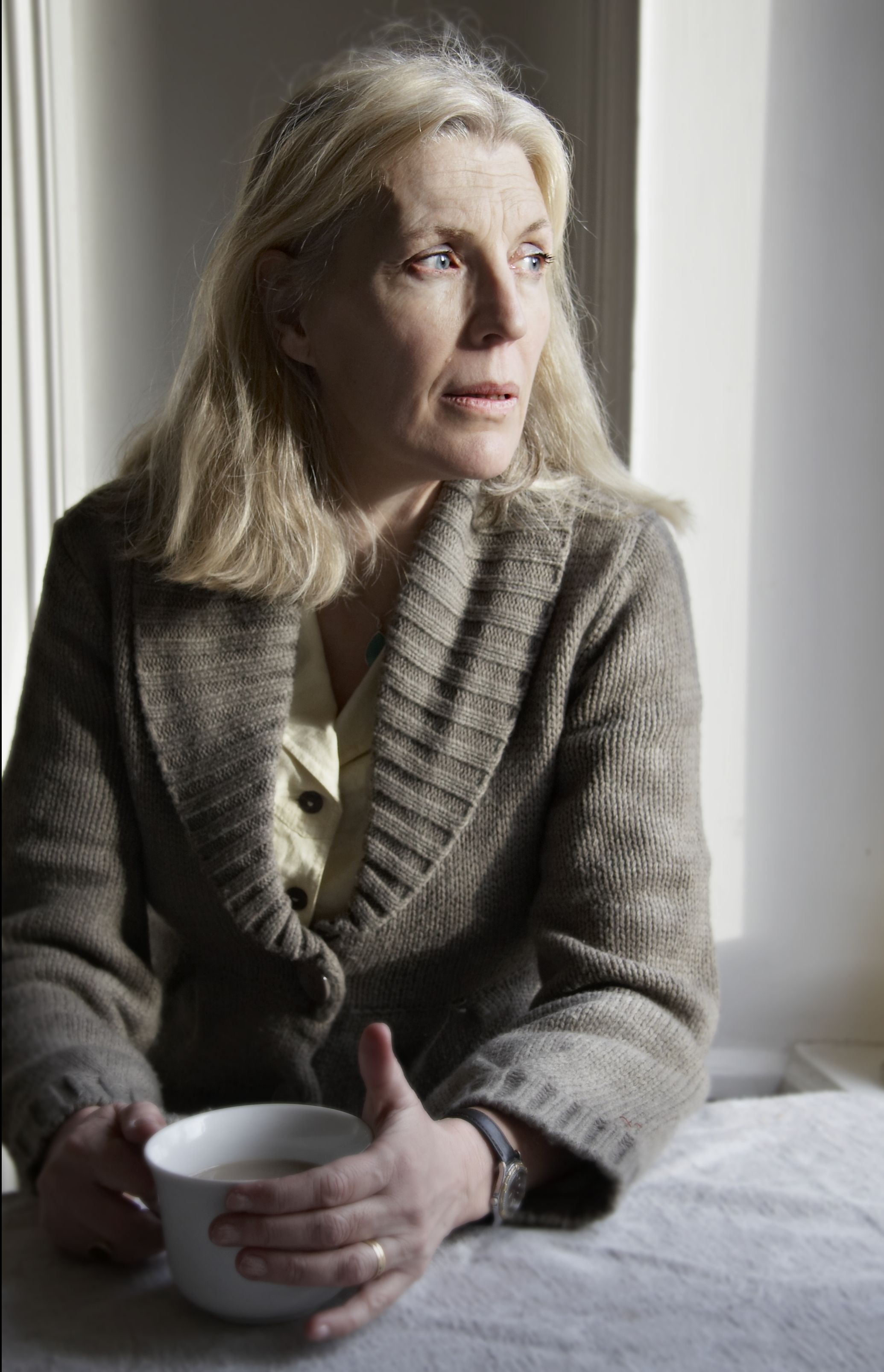 Ingrid Kallenbäck, Swedish author